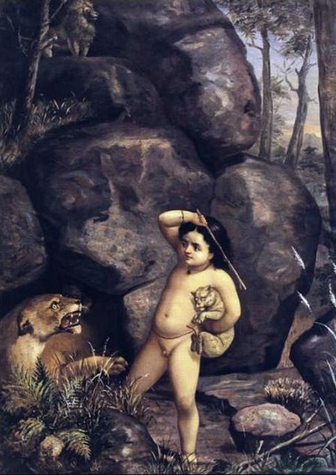 Childhood of Saravadamana is depicted in this Picture. Sarvadamana was the son of Dushyanta and Sankuntala. Sarvadamana later become Emperor Bharata (Sanskrit: भरतः). He is the first to conquer all of Greater India, uniting it into a single entity which was named after him as Bhāratavarṣa.